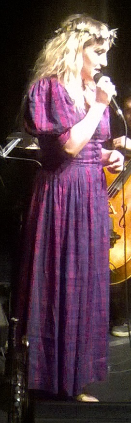 Kyrie Kristmanson photographed in Montréal , Québec, Canada at La Chapelle.